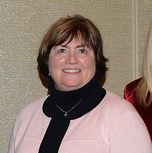 Acting Director Suzette Kimball of the United States Geological Survey (USGS).